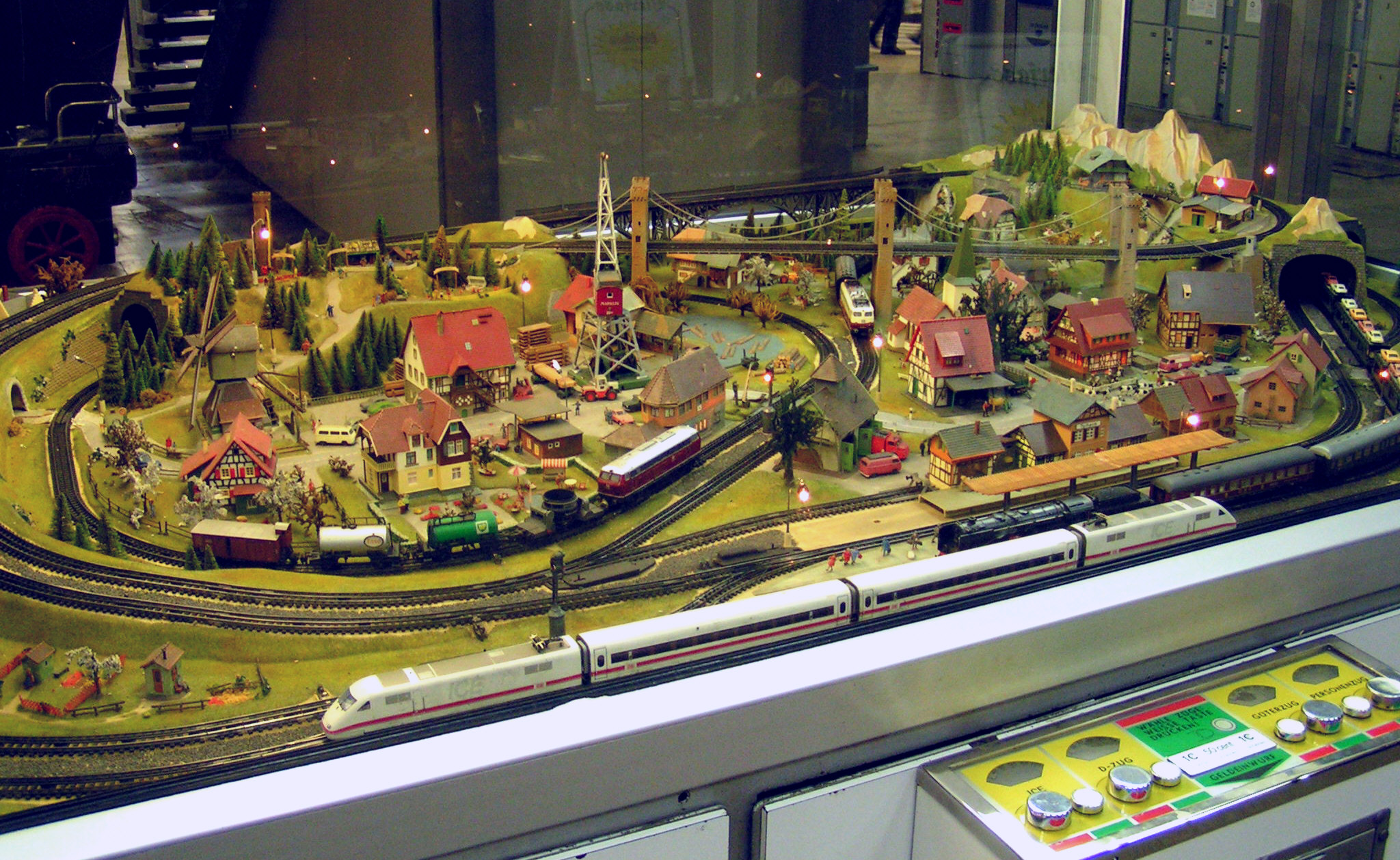 Model railroad at Wuppertal (Germany) main station. This kind of model railroad can be found in many bigger German stations, at least since the 1970ies.